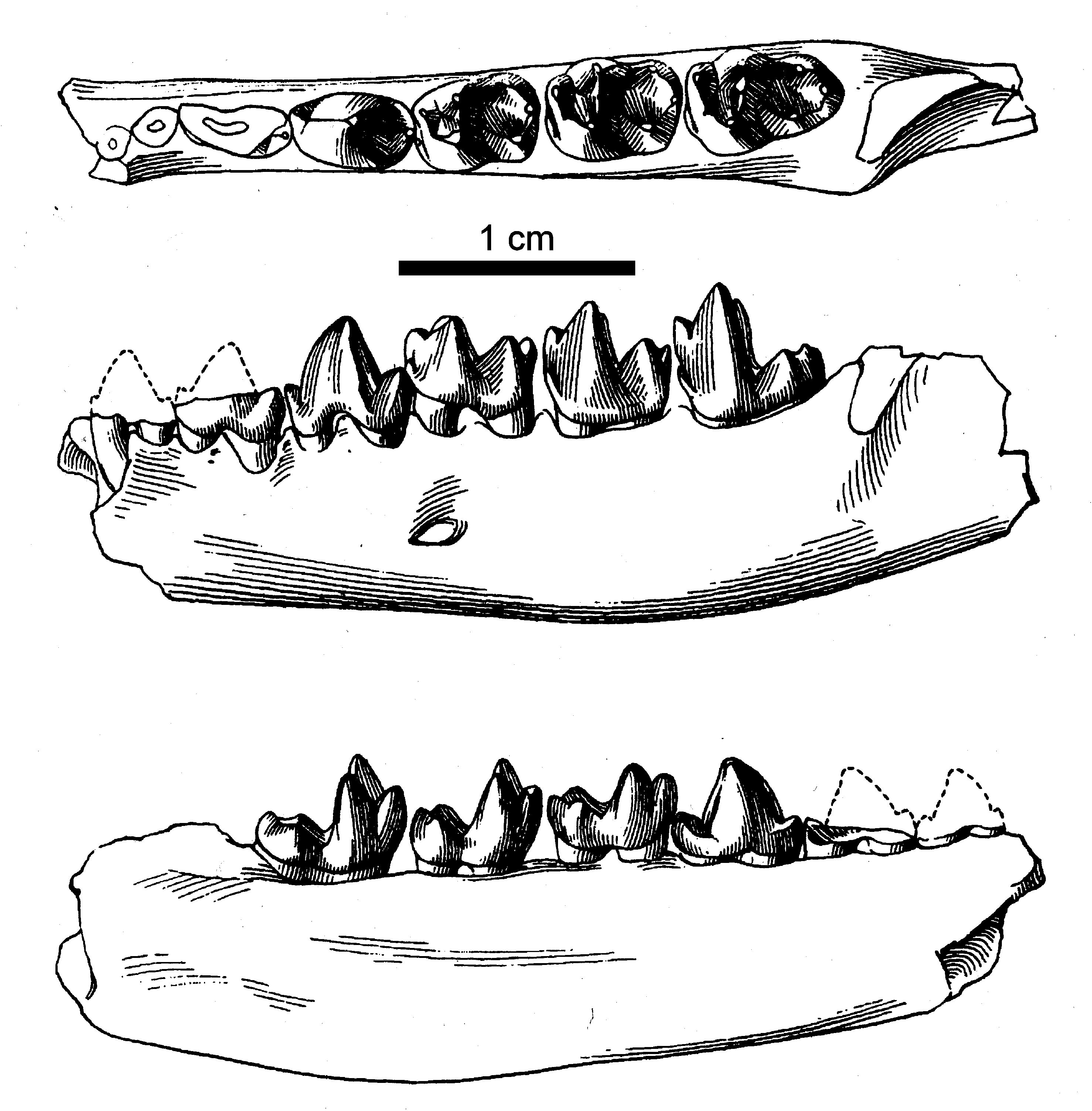 Mandible of Palaeosinopa veterrima printed in William Diller Matthew: Part V: Insectivora (continued), Glires, Edentata. In: William Diller Matthew und Walter Granger (eds.): 'A revision of the lower Eocene Wasatch and Wind River faunas. Bulletin of the American Museum of Natural History 34, 1918, pp. 565–657 (p. 589)